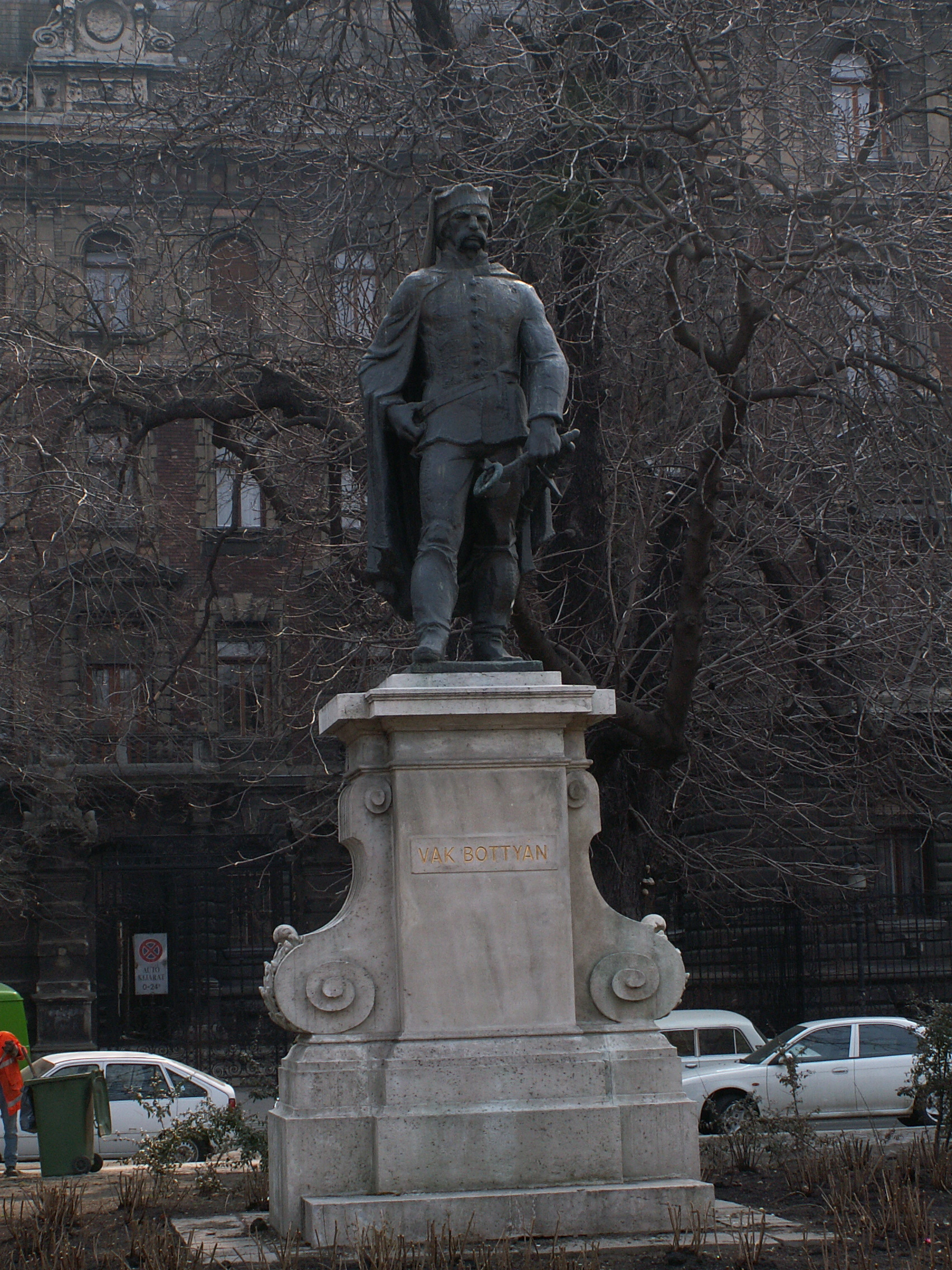 photo of the Vak Bottyán statue in the Kodály Körönd taken by Gyula Kiss Kovács, 2005-Mar-25